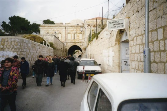 The Street of Armeniam Patriarchate